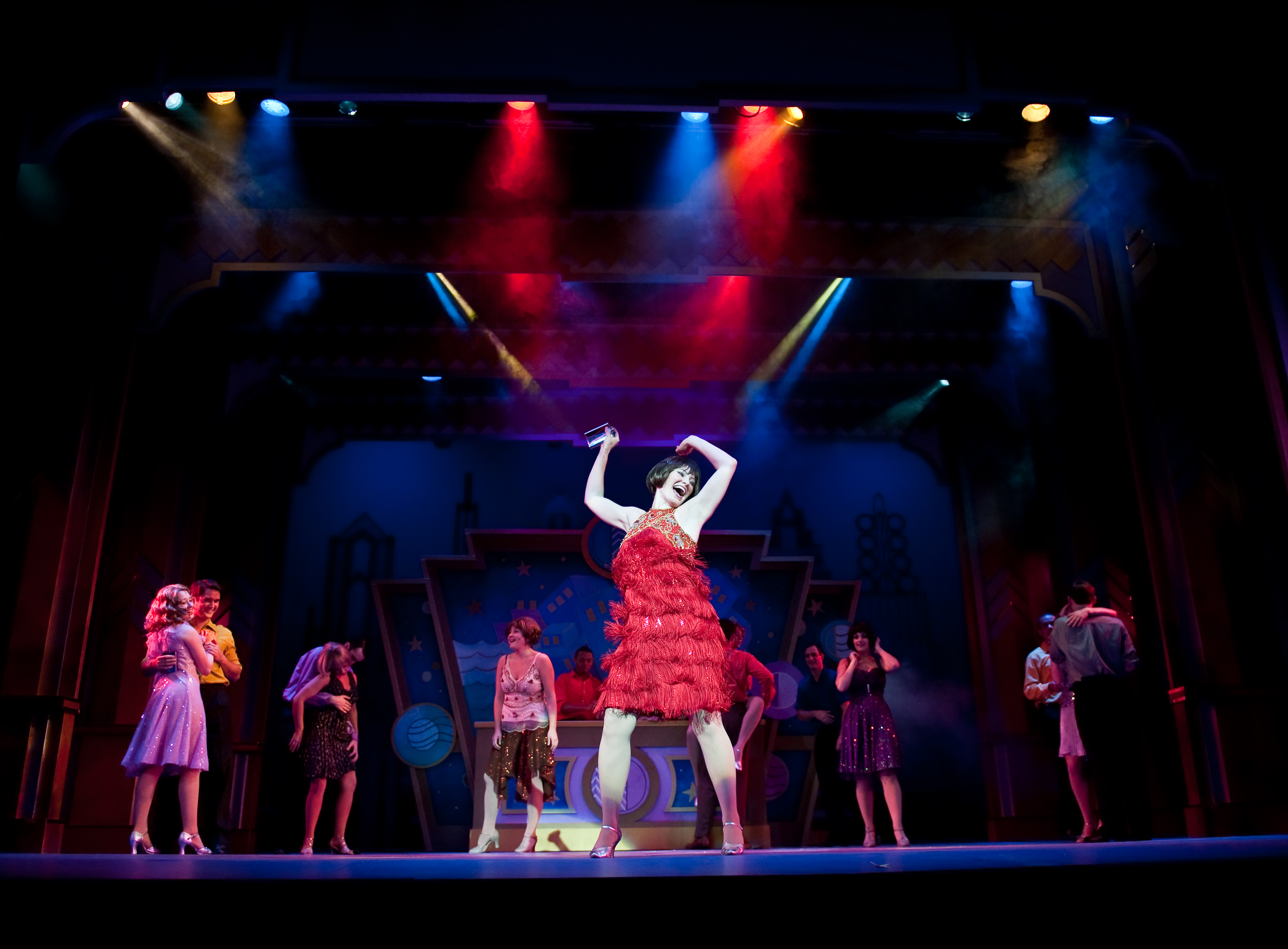 Barksdale Theatre's production of Thoroughly Modern Millie, presented at the Empire Theatre in Summer 2009.